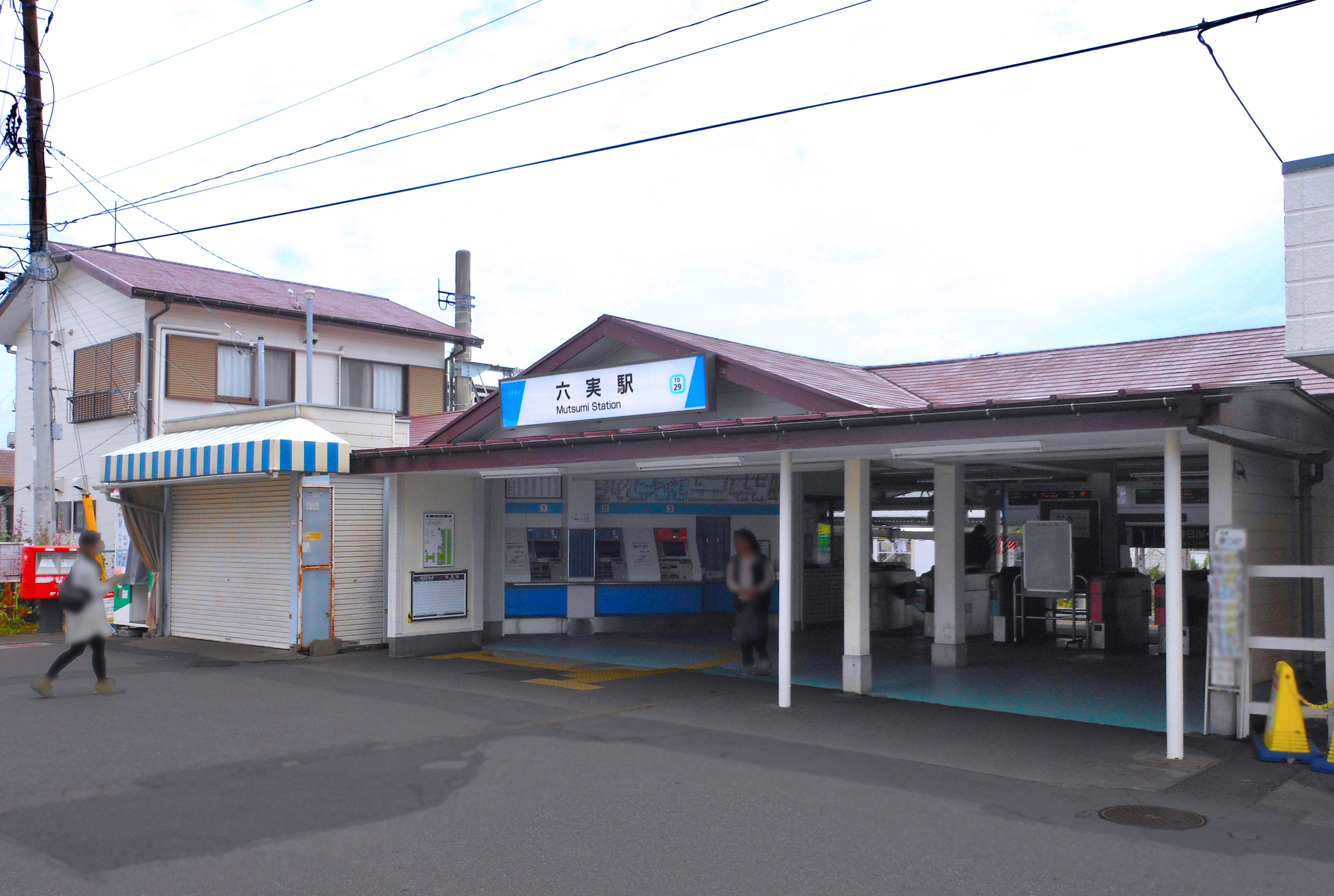 Mutsumi Station in Matsudo, Chiba, Japan